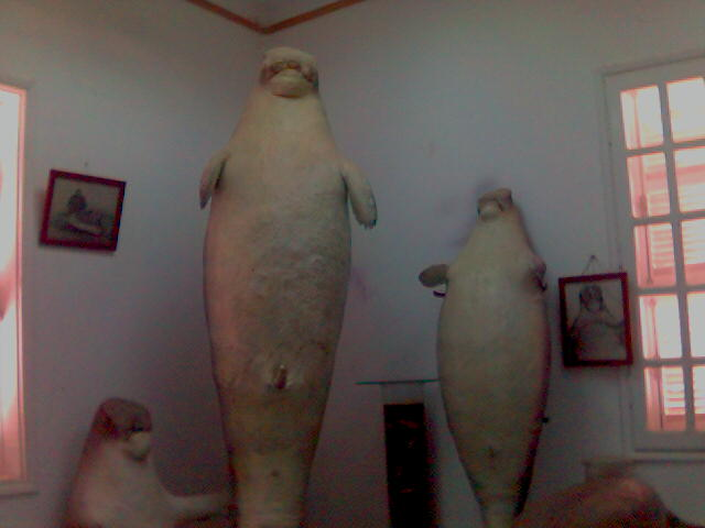 a photo of the Bride of the Sea and the Groom of the Sea